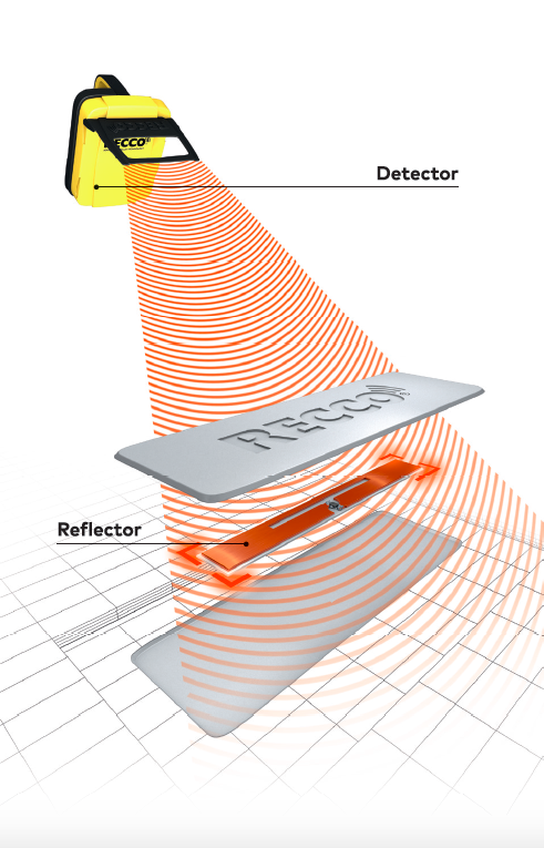 Diagram of RECCO rescue system function